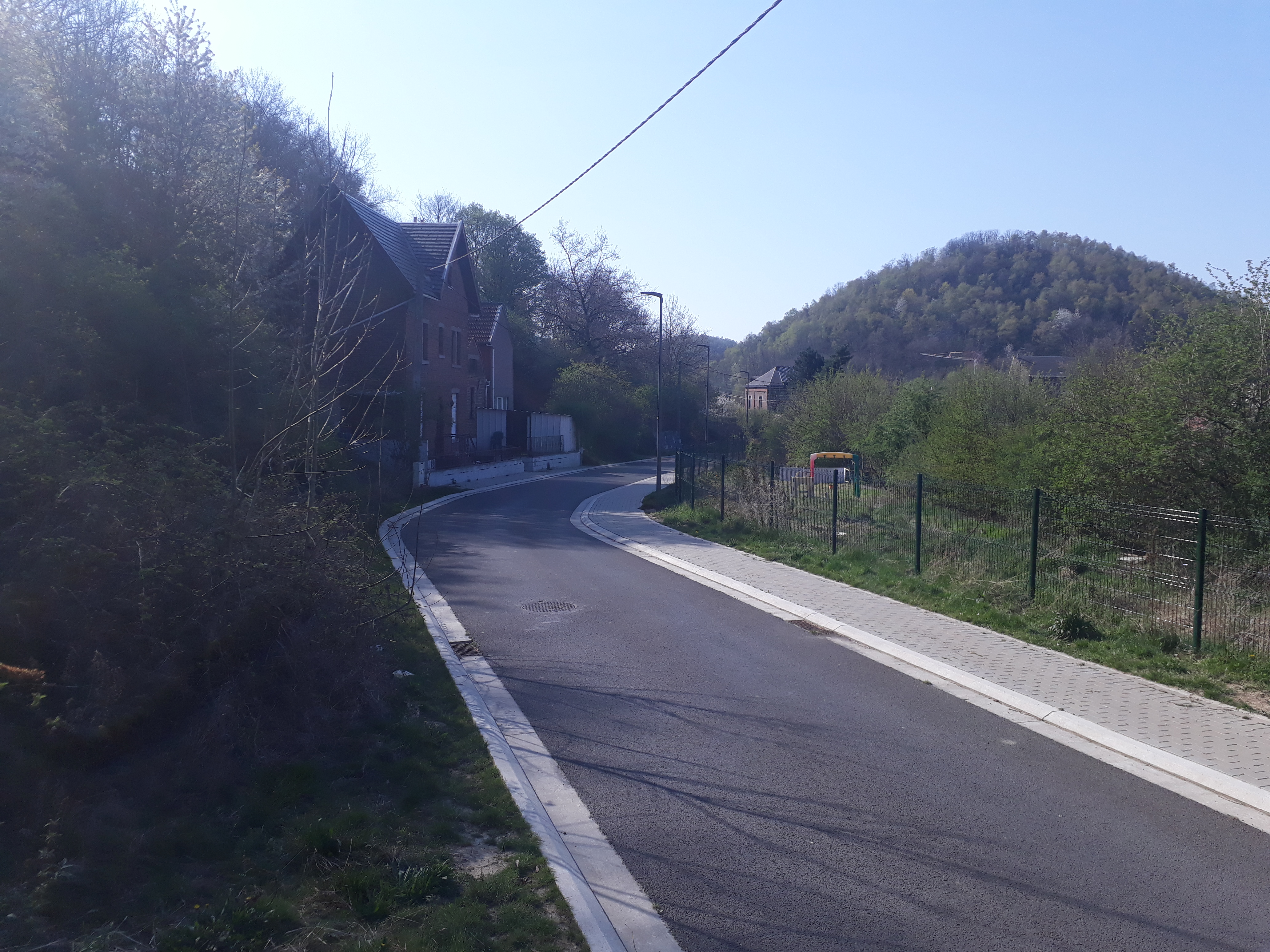 Rida20 Rida River in Herstal Belgium